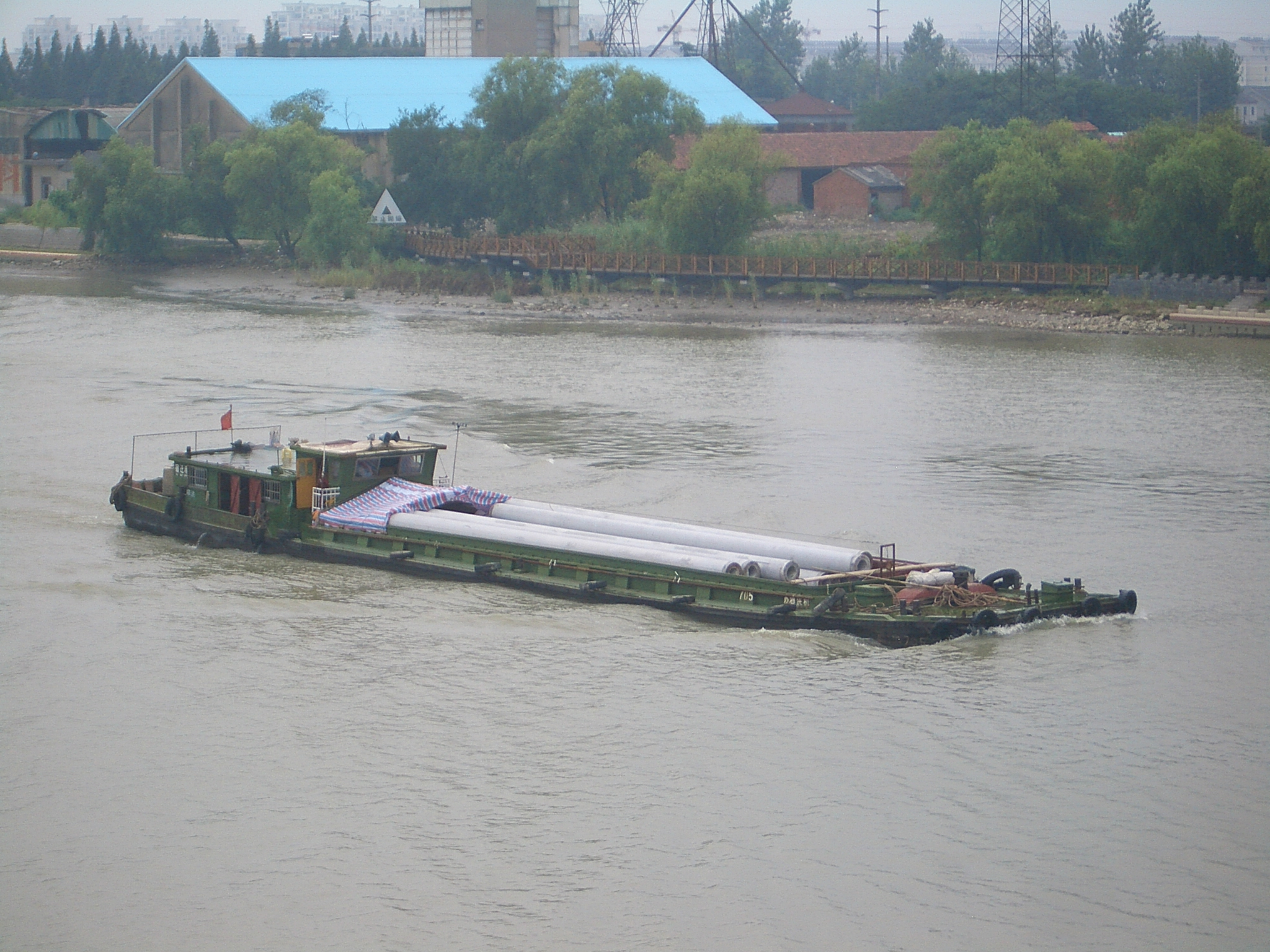 Boats on the modern route of the Grand Canal of China on the eastern outskirts of Yangzhou. (Looking south from a bridge).